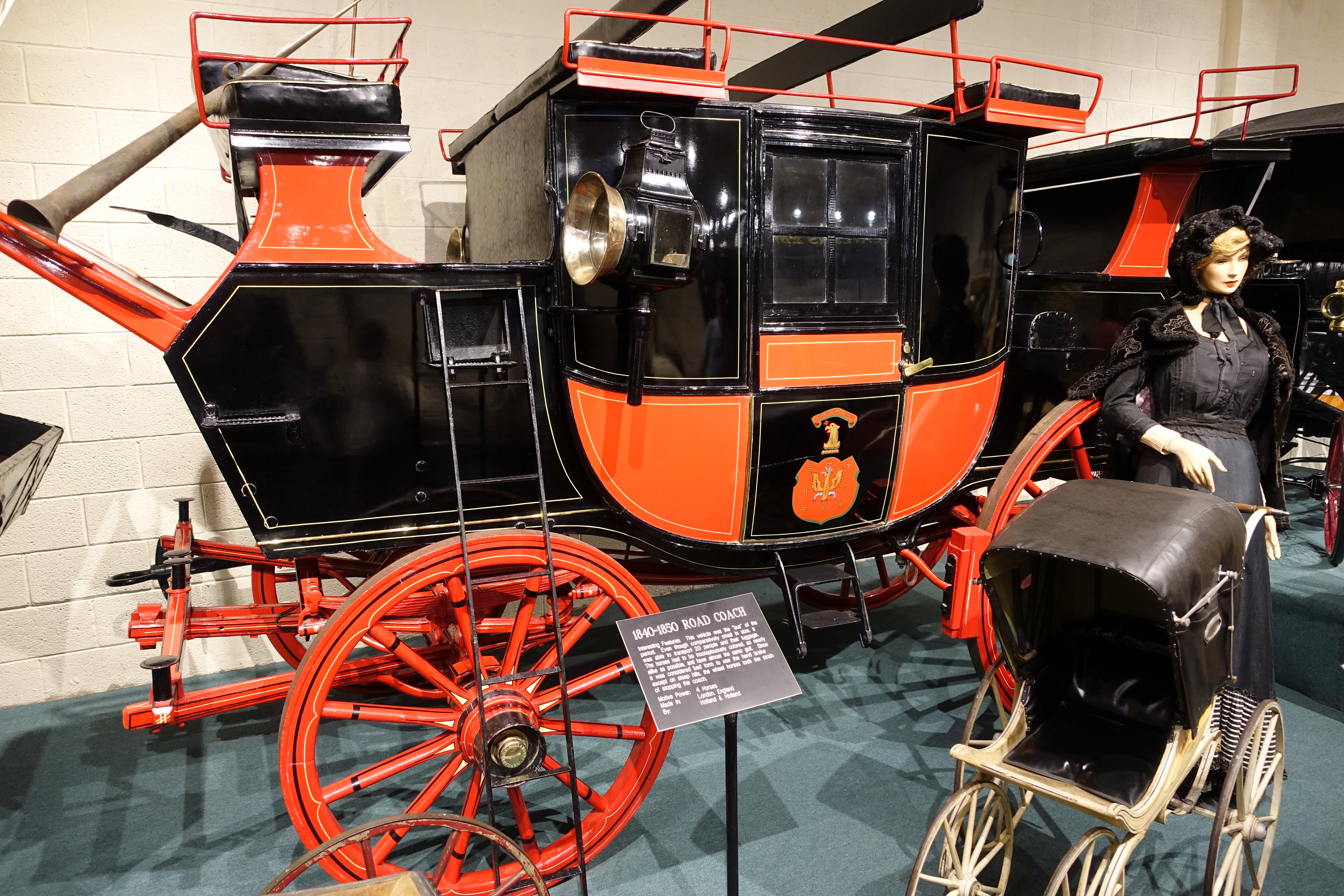 Exhibit in the in the Luray Caverns Car and Carriage Museum, Lurary, Virginia, USA. 1849-1859 ROAD COACH Interesting features. This vehicle was the “bus” of the period. Even though comparatively small in size, it was able to transport 20 people and their luggage. The horses had to be inconspicuously coloured as nearly alike as possible, and have almost the same gait. Since it was considered bad form to use the hand brake except on steep hills, the wheel horses took the strain of stopping the coach. Motive power: 4 horses Made in: London, England By: Holland & Holland